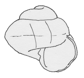 Vertigo antivertigo - Juvenile shell of Pulmonate landsnail; Holocene deposits outcrop Eben Emael, Jekerdal, Belgium